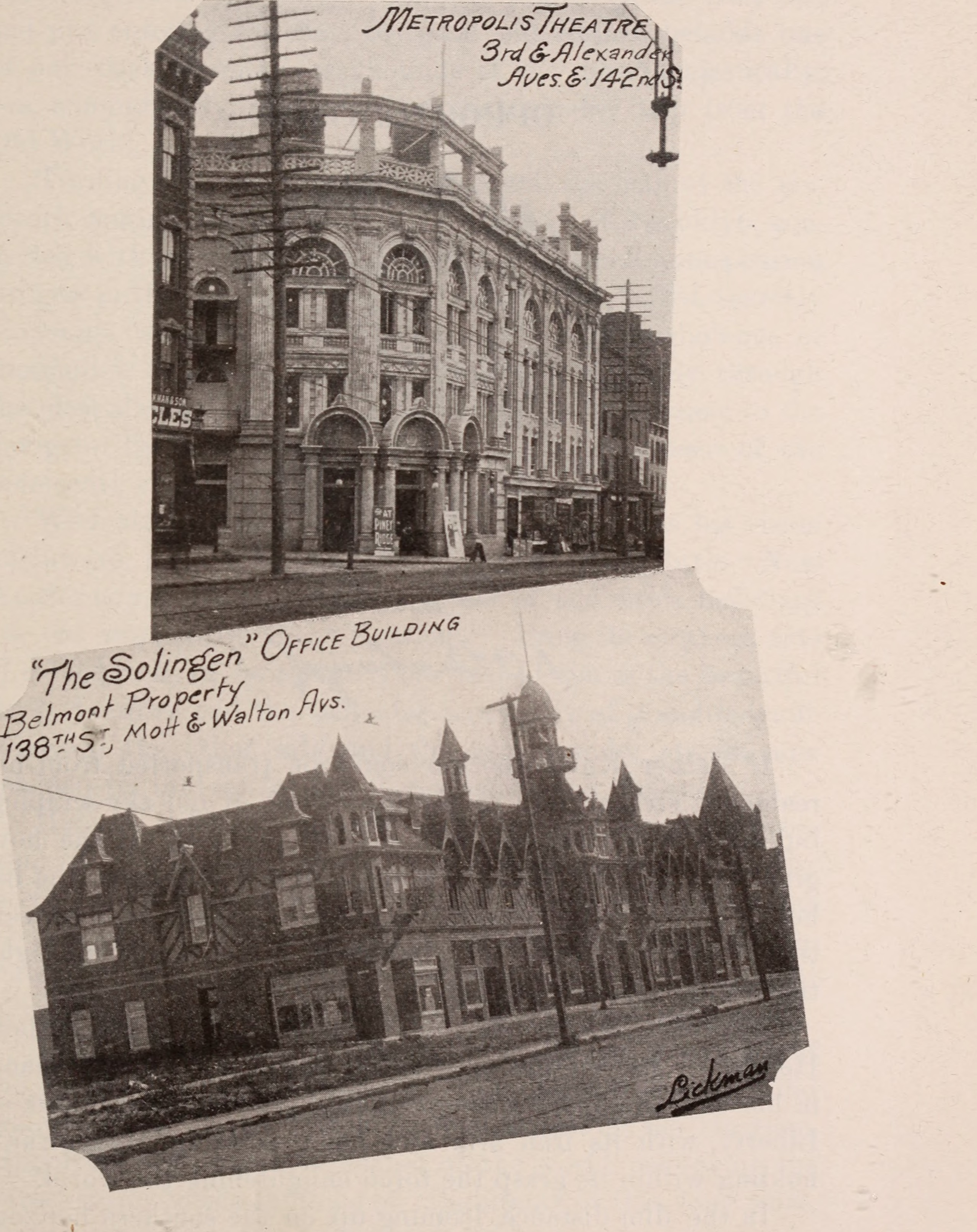 Title: The Great north side, or, Borough of the Bronx, New York Year: 1897 (1890s) Authors: Durst, Seymour B., 1913-, former owner. NNC North Side Board of Trade (Bronx, New York, N.Y.) Subjects: Publisher: New York : Knickerbocker Press Text Appearing Before Image: as had added to its attractionsa handsome and attractive theatre. Our territory contains one of the great defences to NewYork Harbor. The works at Fort Schuyler, and on theopposite shore at Willets Point, although not quite up to dateas fortresses, present by their magnificent torpedo Byetem animpassable barrier to an enemy from abroad, and can easilybe maintained as a safe and suit protection to our city fromthe eastward. Van Cortlandt Park parade ground is the largest and bestlaid out in the State, and furnishes ample and convenient ac-commodation for the maineuvres and drill of our militiaregiments, troops and batteries. The foregoing are submitted as a very crude statement ofsome of the general advantages of the North Side, and takentogether with those which are specifically described in th^sepages, it must be conceded that we can offer health, free air,and every convenience which can be desired for the enjoy-ment of comforts or luxuries of life. Un/ve^s/ty Post Off/cs. Cedar A va Text Appearing After Image: 2ig OPPORTUNITIES.